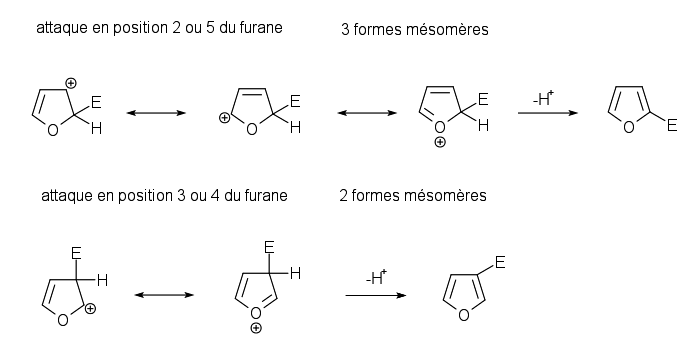 furan électrophile substitution